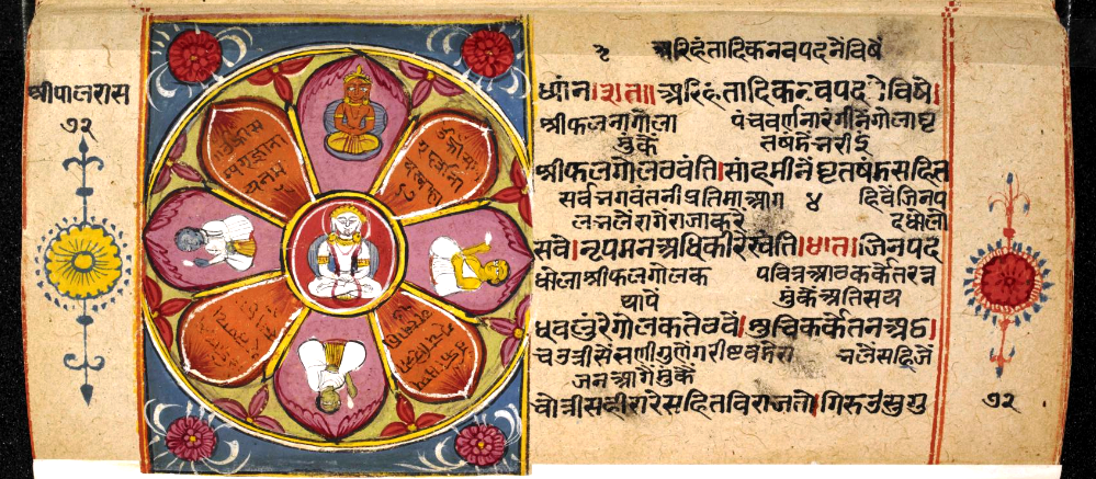 Siddhachakra, a yantra for worship in Jainism published in manuscript Shripal Raas dated 17th to 18th centuries, digitalised by The British Library Board